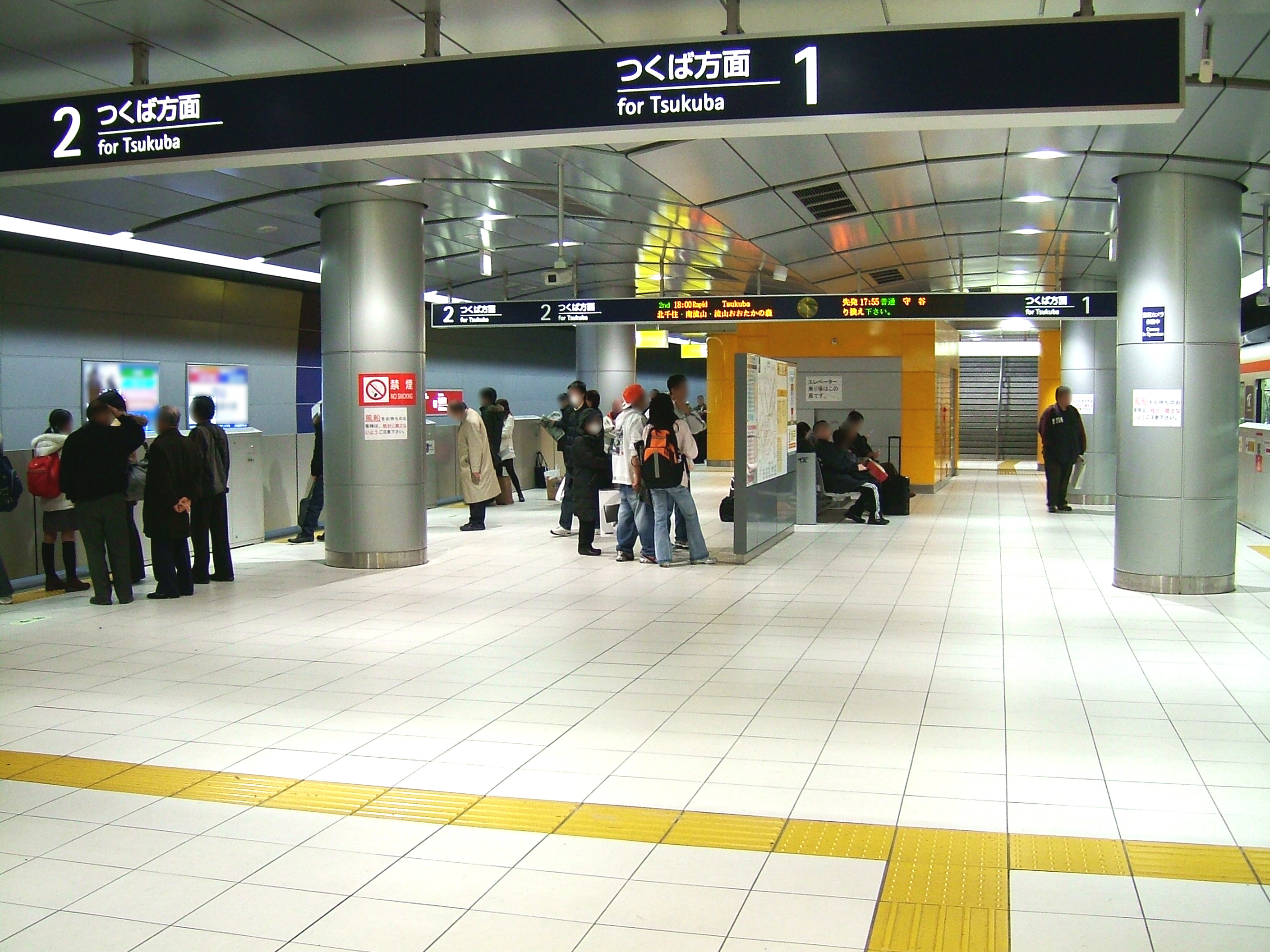 Akihabara Station platform (Tsukuba Express)